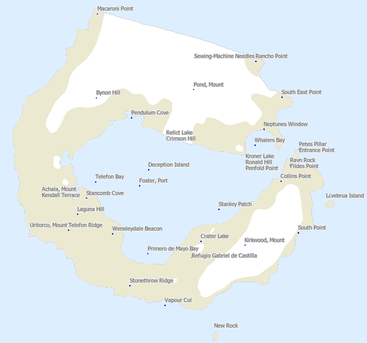 Map of Deception Island, South Shetland Islands, Antarctica